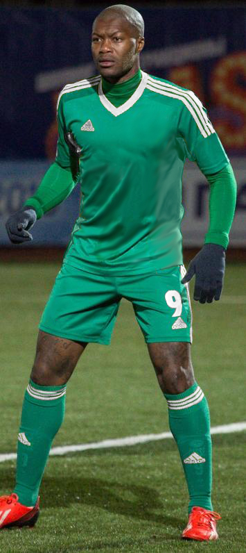 Djibril Cissé, colour edited by user Sportingn